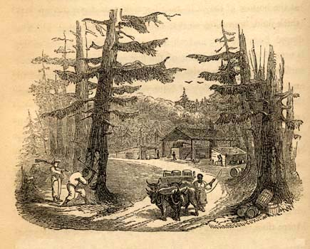 A slave leads a team of oxen pulling a cart loaded with barrels of turpentine along a dirt road through the woods. To the side, another slave is chopping at a pine tree with an axe to expose the sap, while a white man watches with a gun over his shoulder. Log buildings are visible in the background.